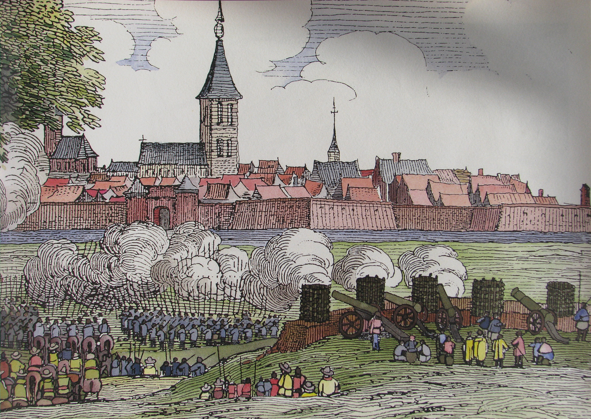 View of Grol during the siege of Frederick Henry in 1627, although the defensive works of Groenlo are in late 16th century state (walls instead of earthen ramparts).